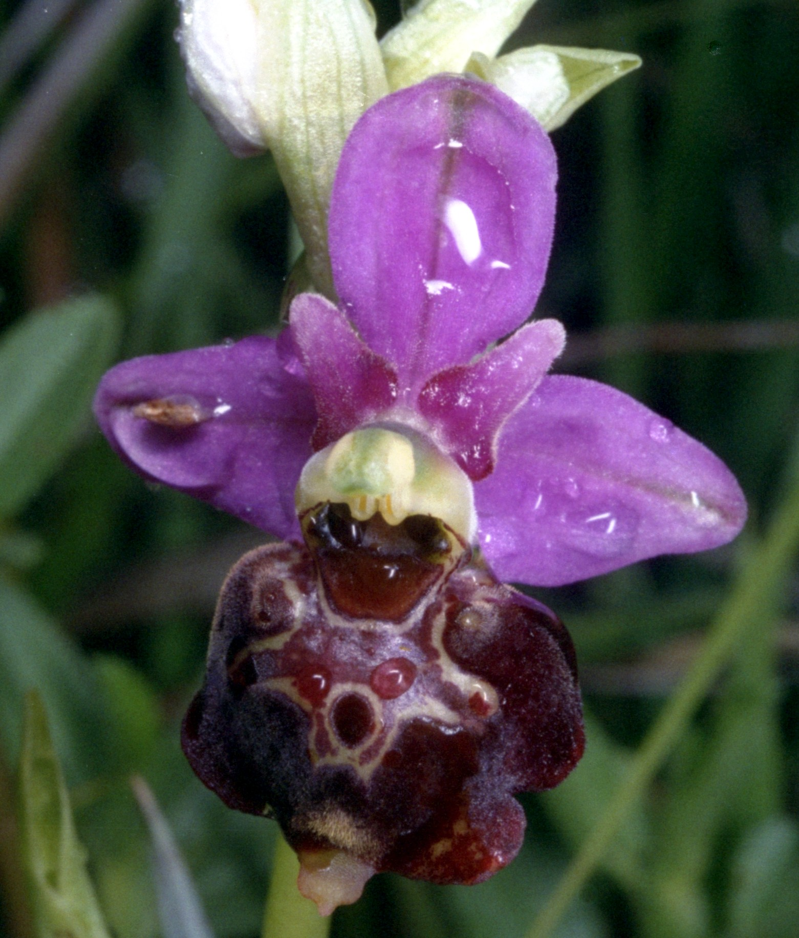 Ophrys holoserica